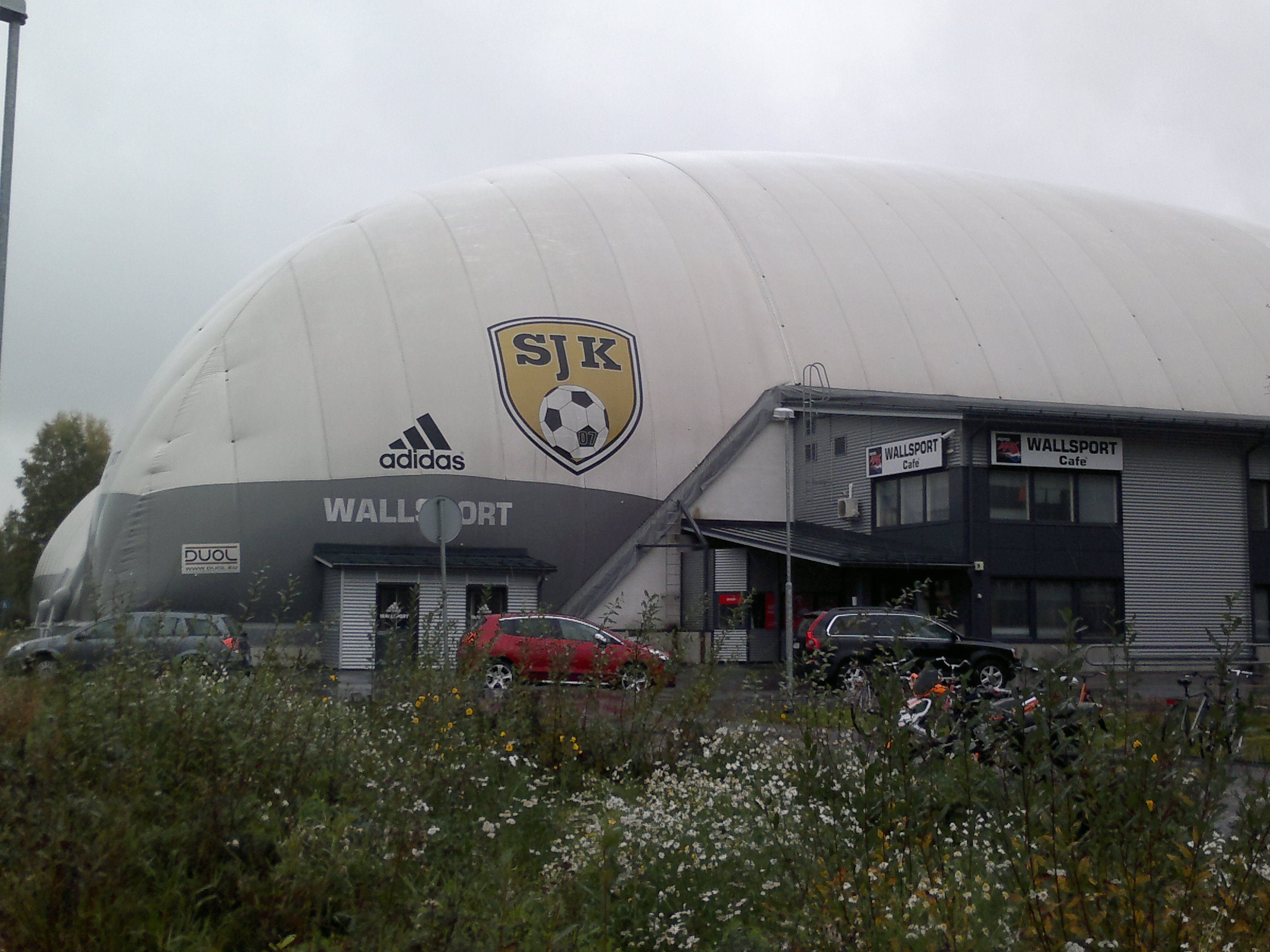 Wallsport Areena in Seinäjoki, Finland.